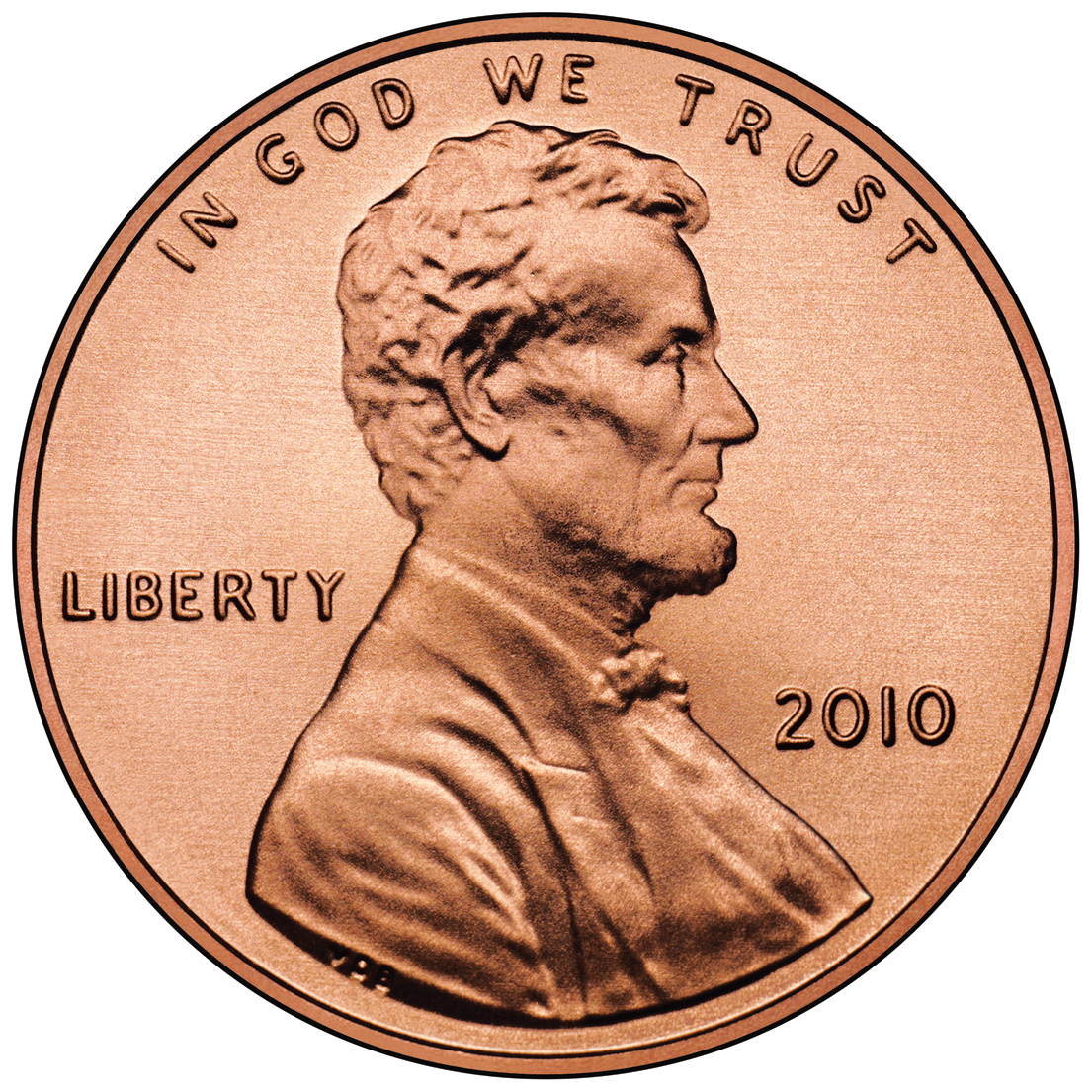 The obverse ("heads" side) of the cent after 2010. While this is the same design that's been used since 1909, the 2010 design has been modified using Brenner's models from 1909. The description from the Mint is as follows: Bears the likeness of President Lincoln.